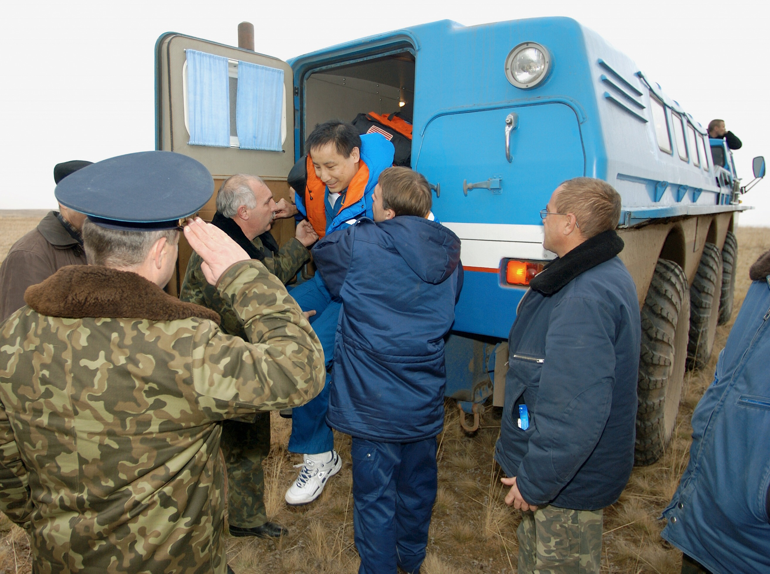 Astronaut Edward T. Lu, Expedition 7 NASA ISS science officer and flight engineer, is helped from a Russian all-terrain vehicle after being transported from the Soyuz TMA-2 landing site to his helicopter in Kazakhstan. The pilot of the helicopter salutes Lu as he departs the ATV.